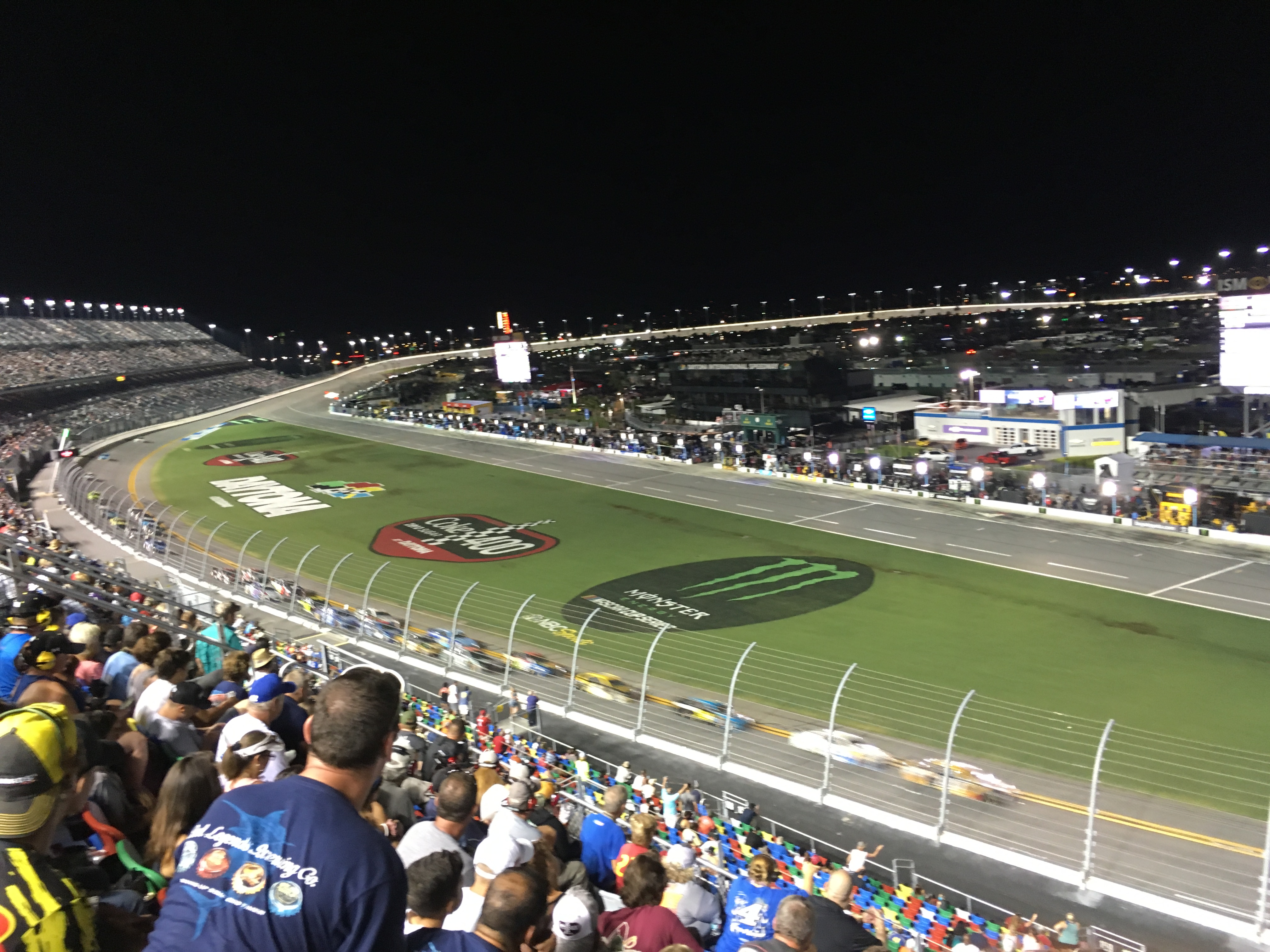 The final stage of the 2018 Coke Zero Sugar 400 at Daytona International Speedway viewed from the frontstretch, with Clint Bowyer (#14) leading.